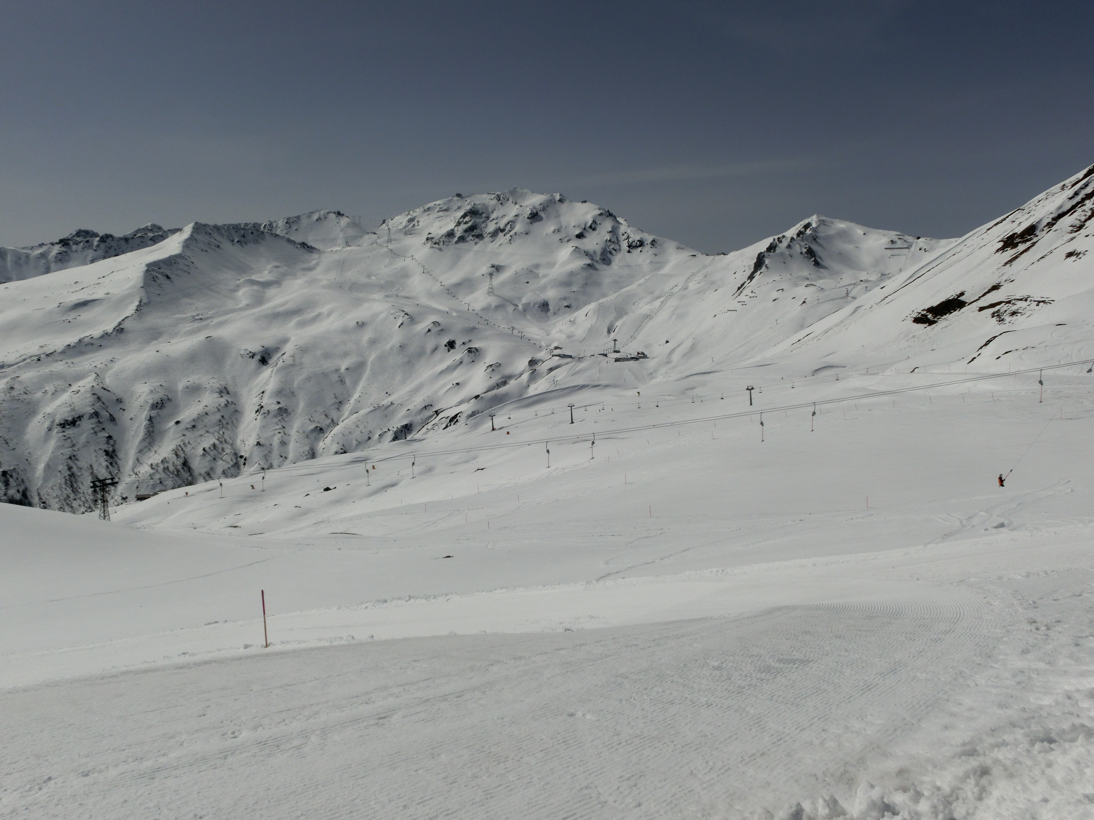 Skiing area Parsenn as seen from Gotschnagrat, Davos, Koster-Serneus, Grisons, Switzerland. Rumantsch: Territori da skis Parsenn, piglia se digl Gotschnagrat, Tavo, Koster-Serneus, Grischun, Svizra.